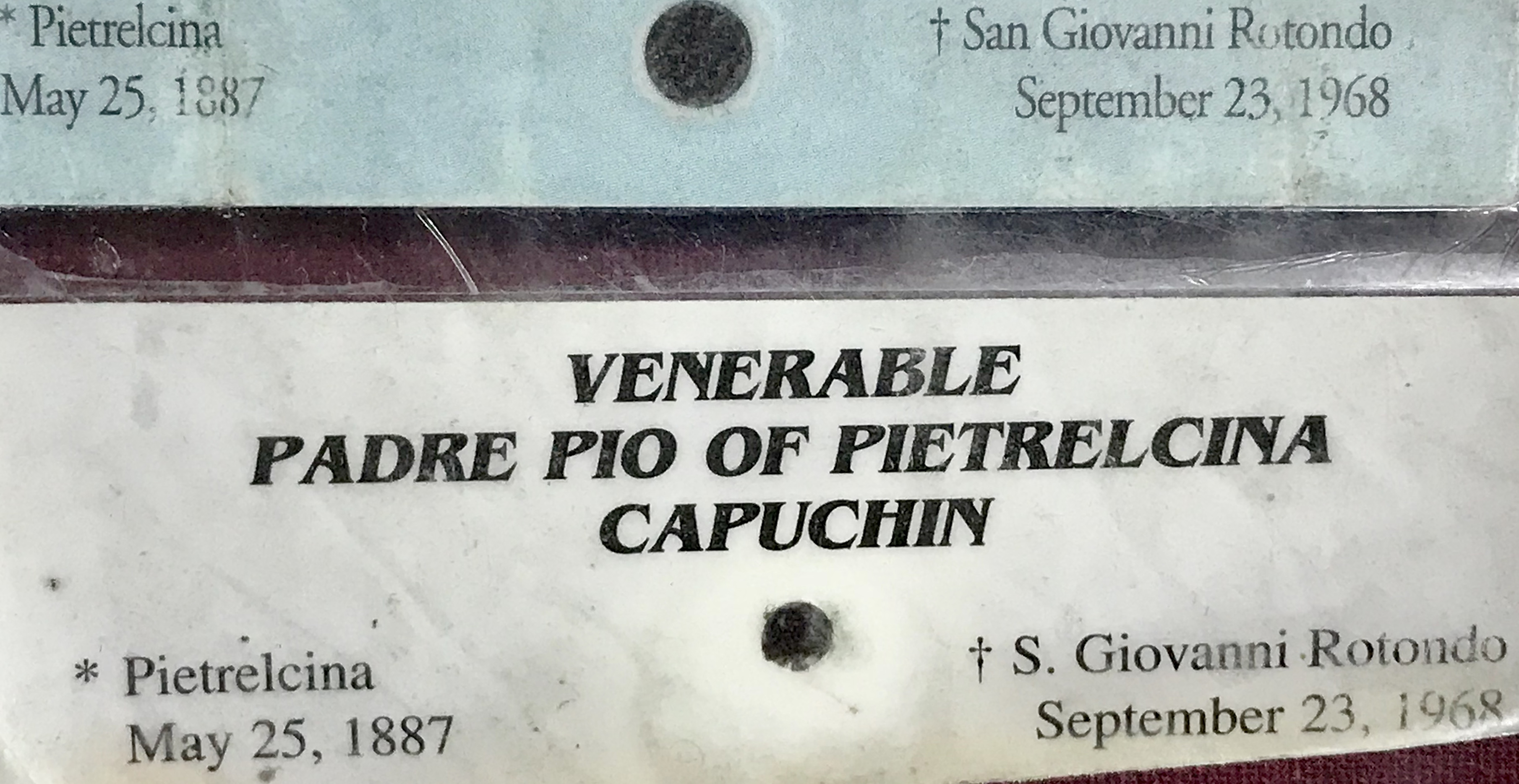 Third Class cloth relic of Saint Pio